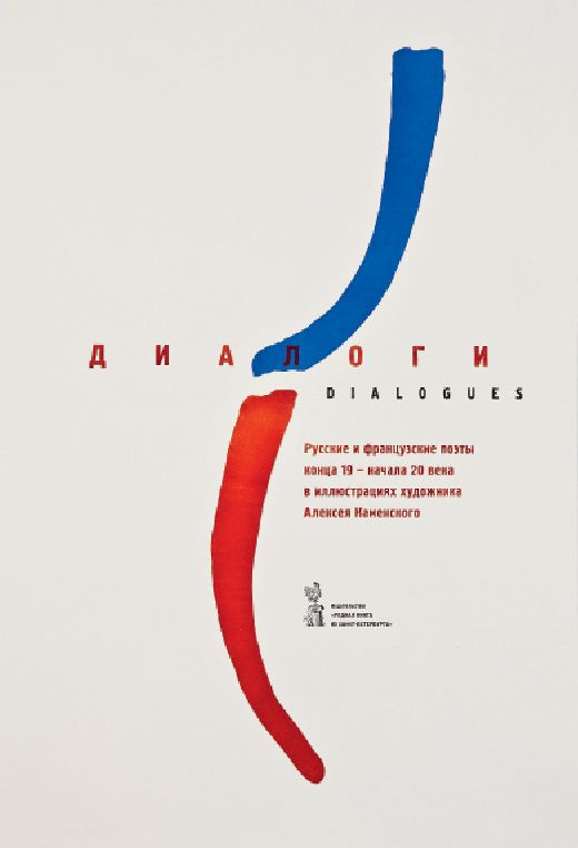 Illustrations by A.Kamensky